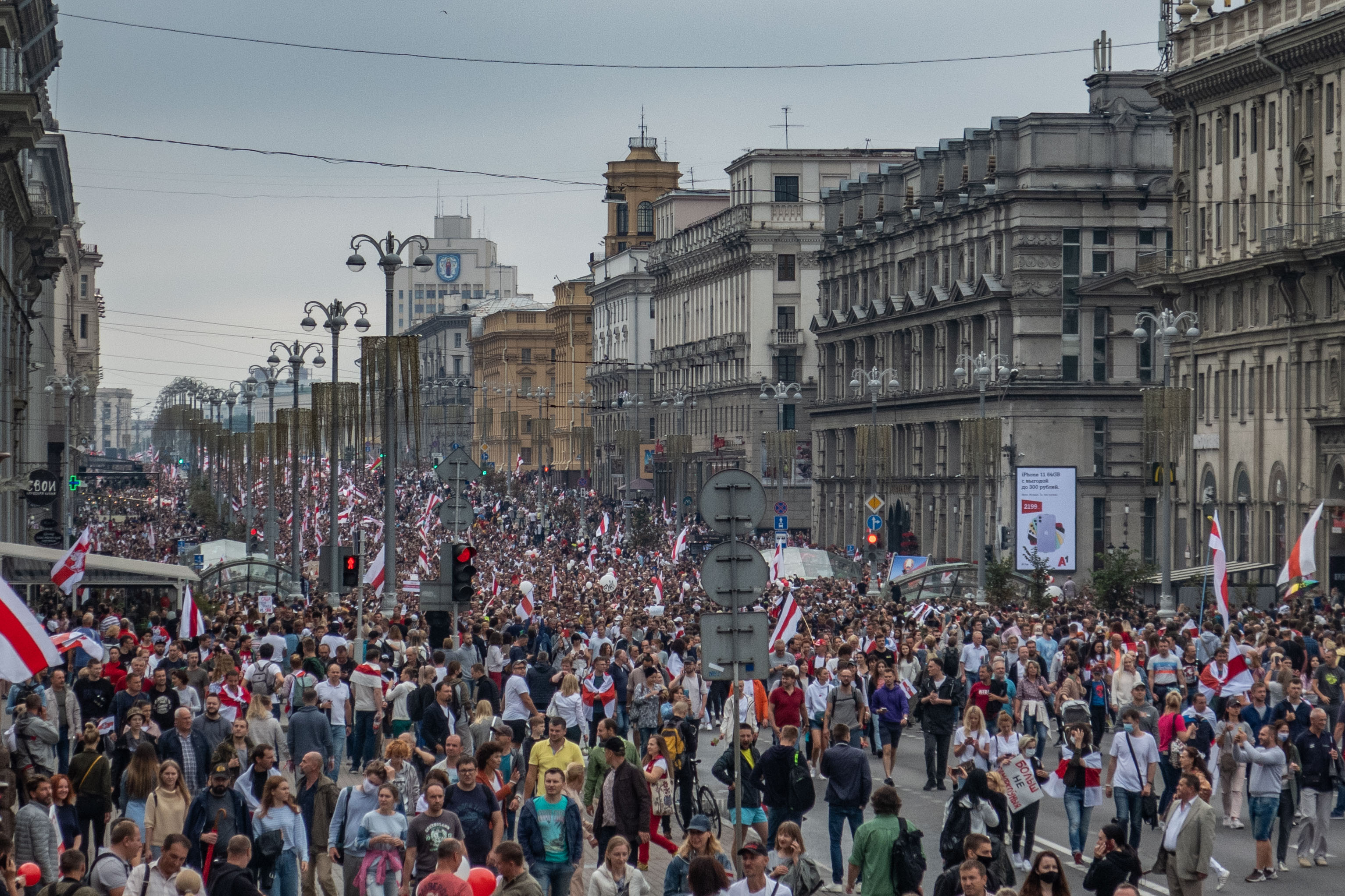 Protest rally against Lukashenko, 23 August 2020. Minsk, Belarus